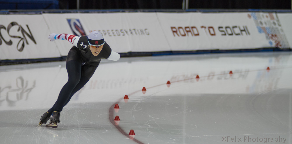 Anna Ringsred skates in the 5000 meter race at the 2014 United States Olympic Trials